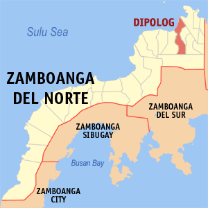 Map of the Zamboanga del Norte showing the location of Dipolog